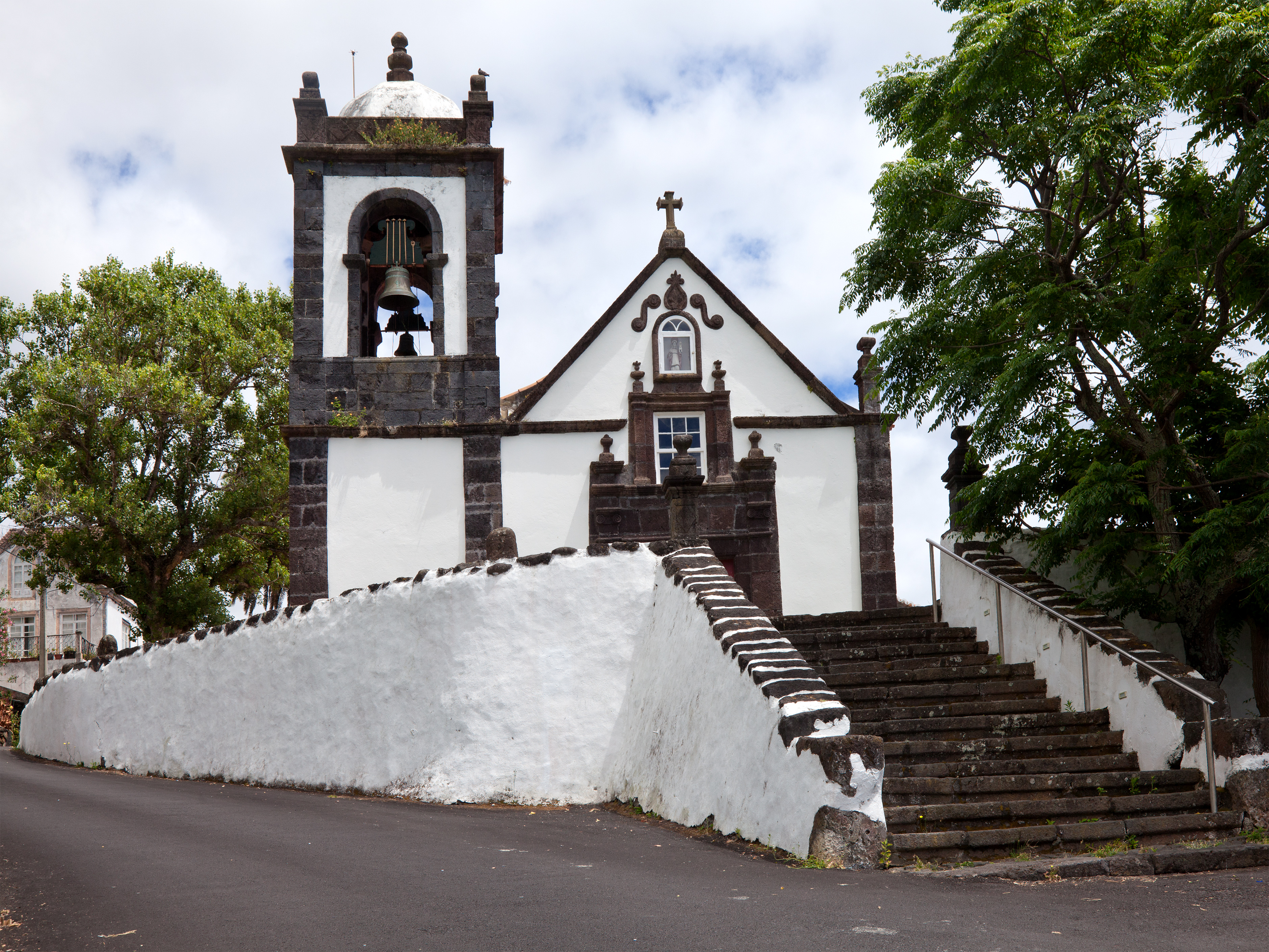 Church of Santa Bárbara, Manadas, Velas, São Jorge (Azores), Portugal